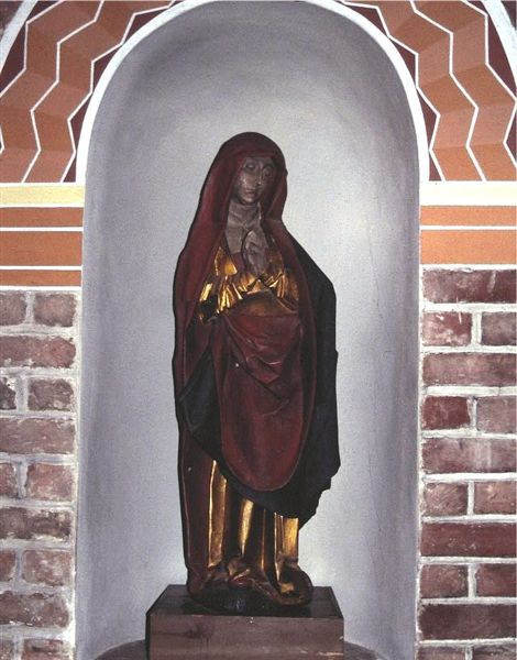 Tirsted Kirke (church)